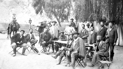 Engineer Richard Maury (third from the left) with railway workers on the Salta-Angofasta railway (C-14 branch).